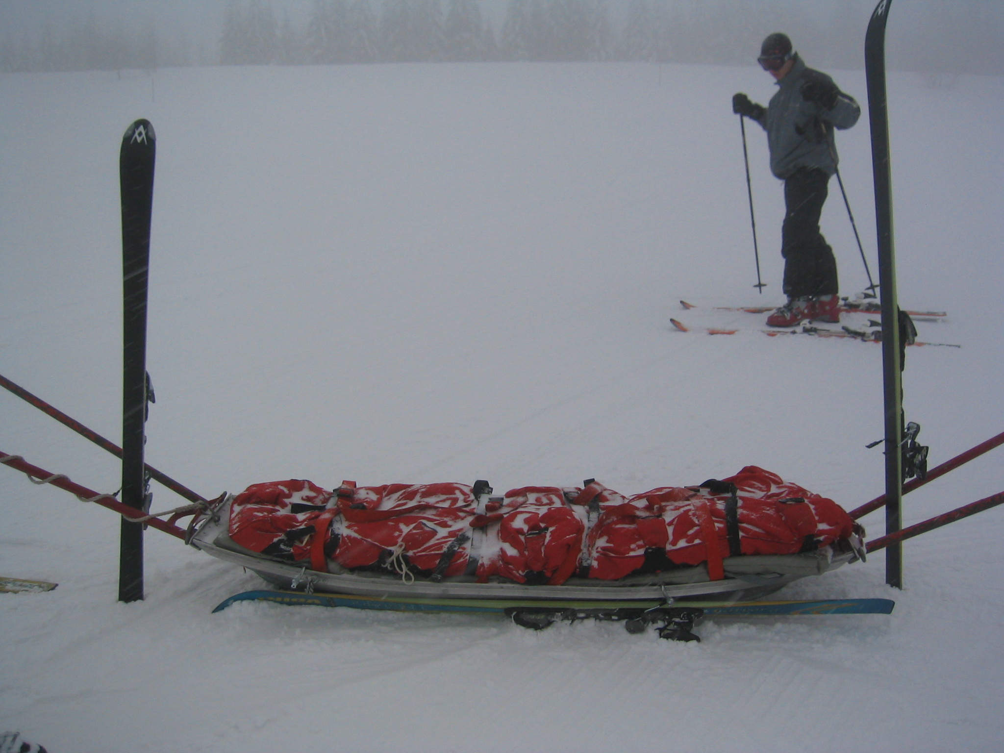 Akia gesichert auf Skipiste Mountain sledge (Akia) on ski slope, secured